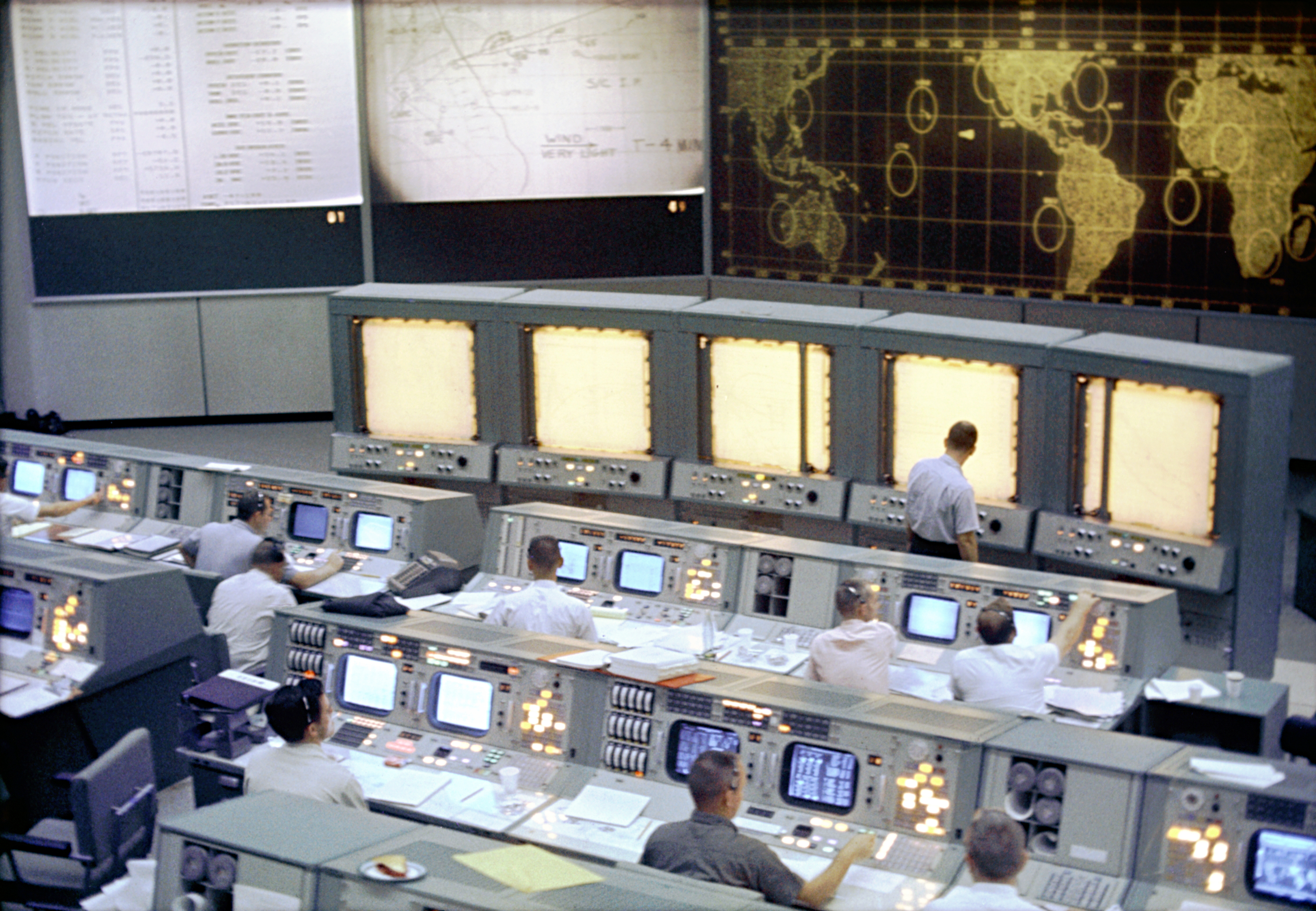 Overall view of the Mission Control Center (MCC), Houston, Texas, during the Gemini 5 flight. Note the screen at the front of the MCC which is used to track the progress of the Gemini spacecraft.